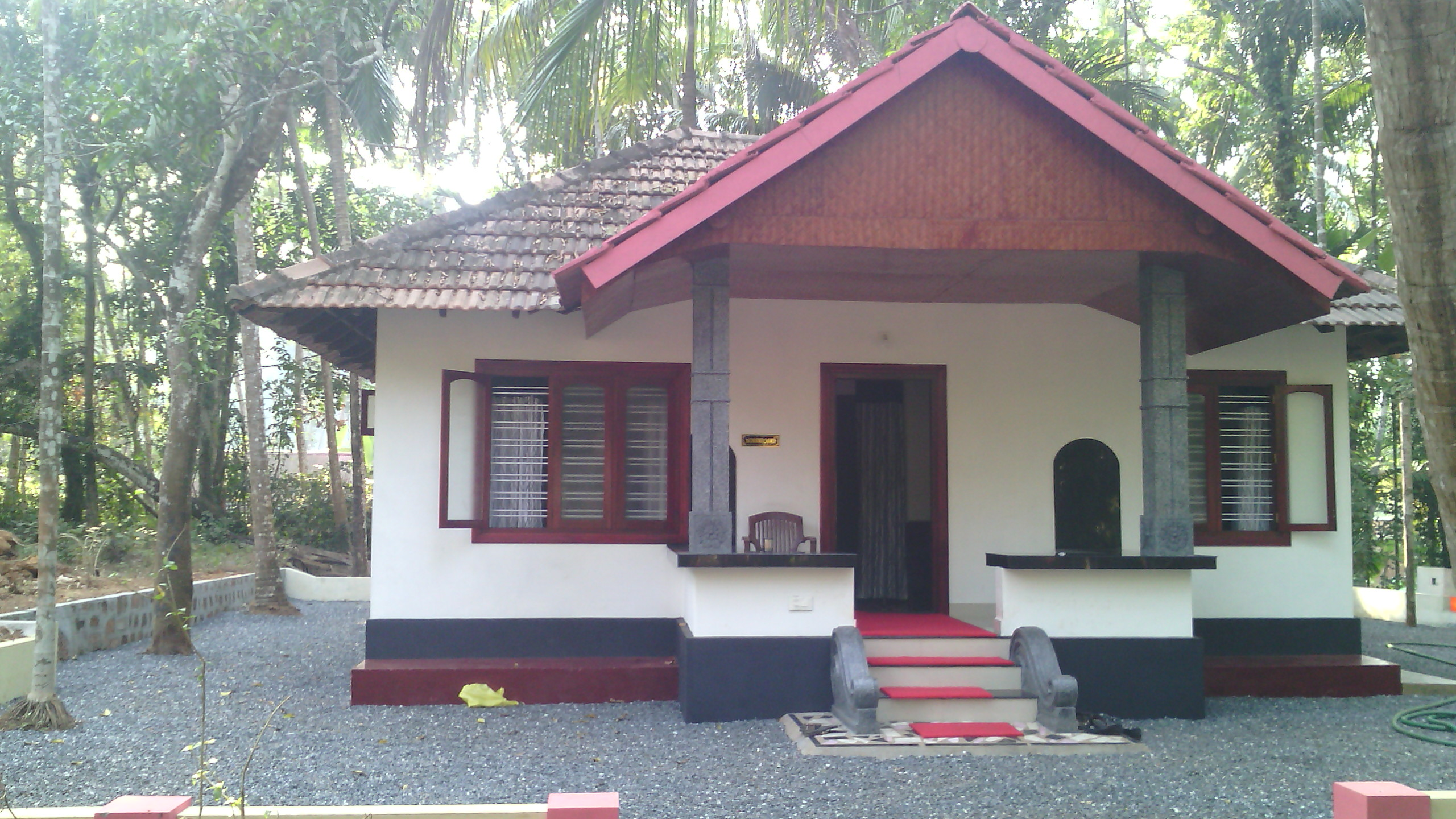 Small Tiled House